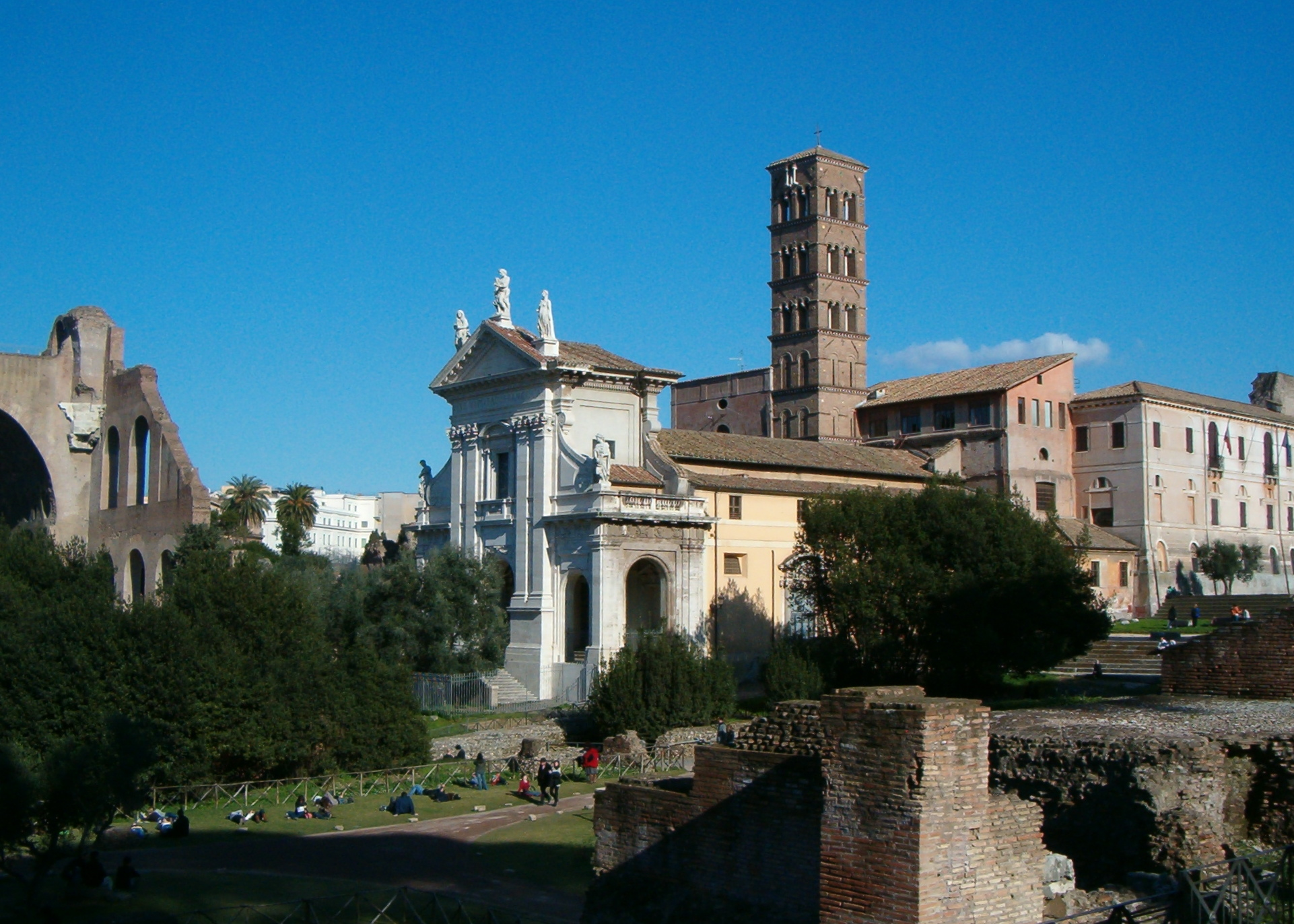 Church of Santa Francesca Romana near Forum Romanum, Rome.